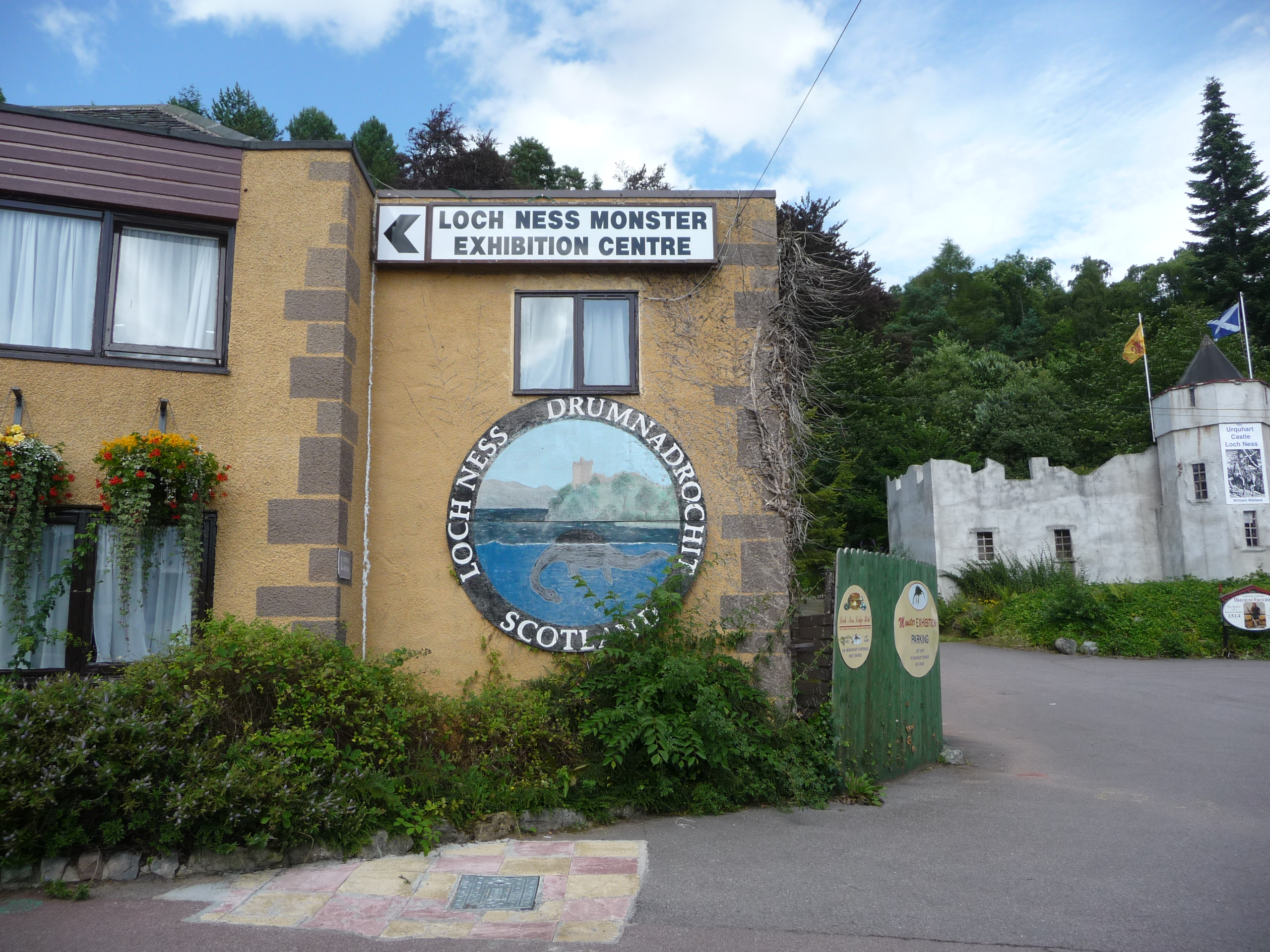 Loch Ness Monster